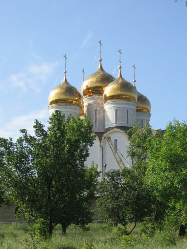 Sainted-Uspenskiy Mikolo-Vasilivskiy monastery